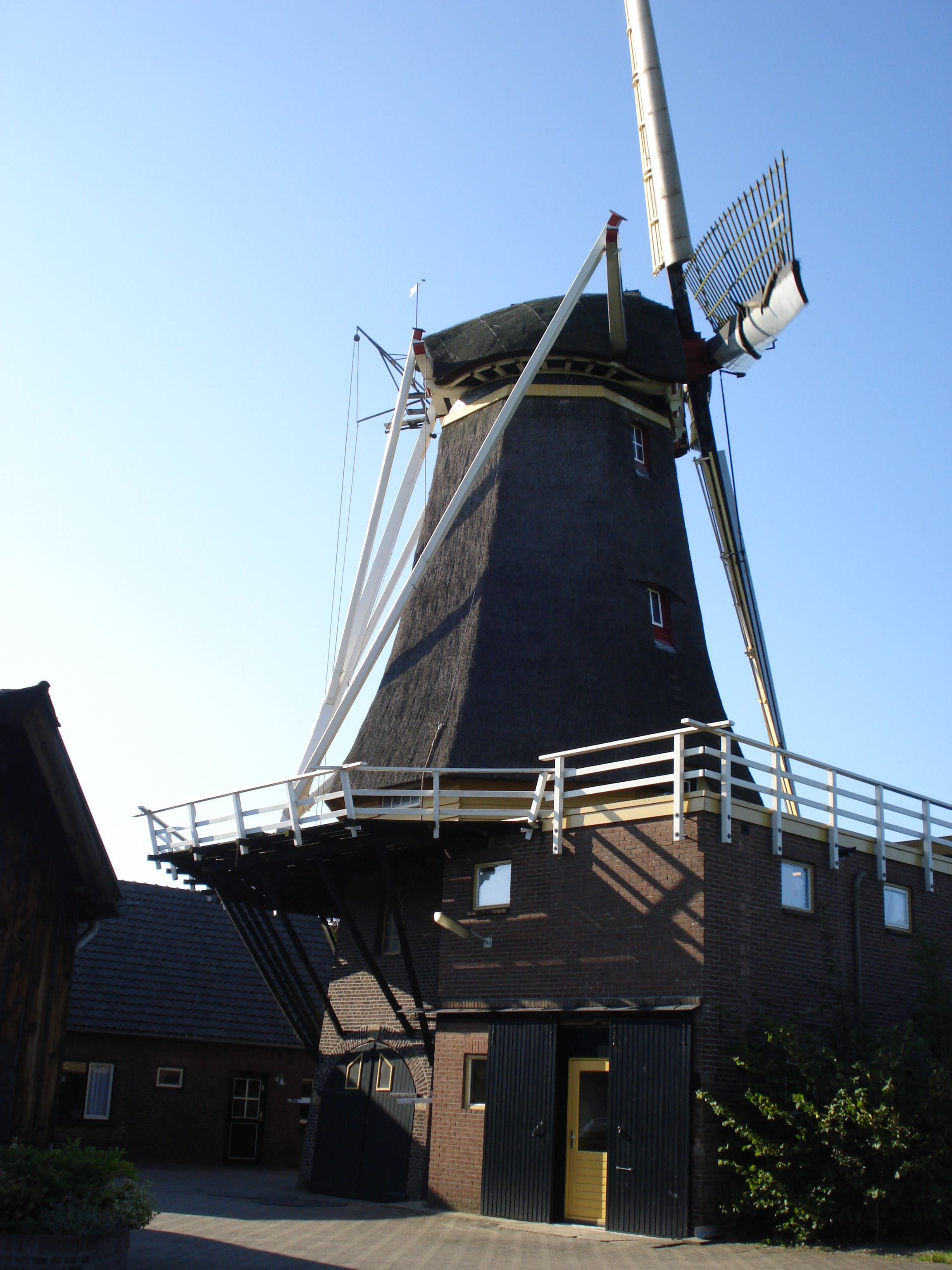 Oud-Zevenaar (Gld-NL) stellingmolen De Hoop